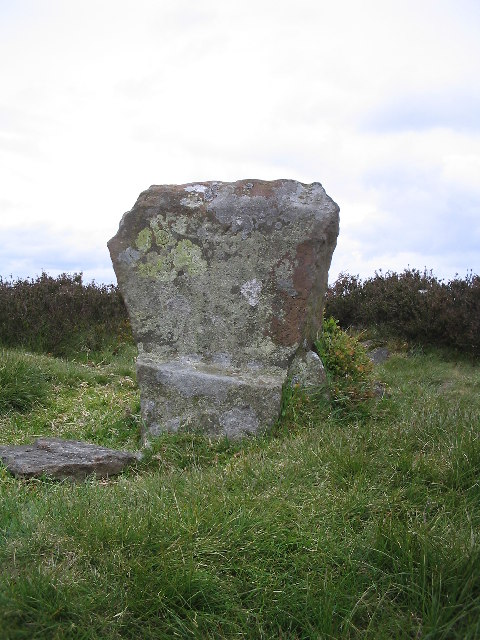 Wet Withens. Wet Withens stone circle on Eyam moor. Most of the stones are hidden in heather but this one stands alone and has carved features similar to Higger Tor on the horizon and a seat carved on the base